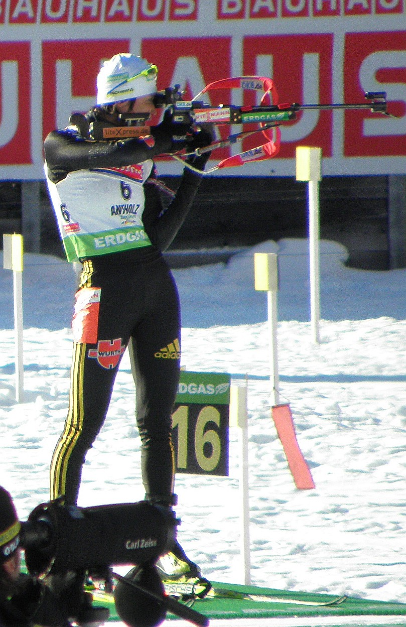 Simone Hauswald in Antholz, 22-01-2010